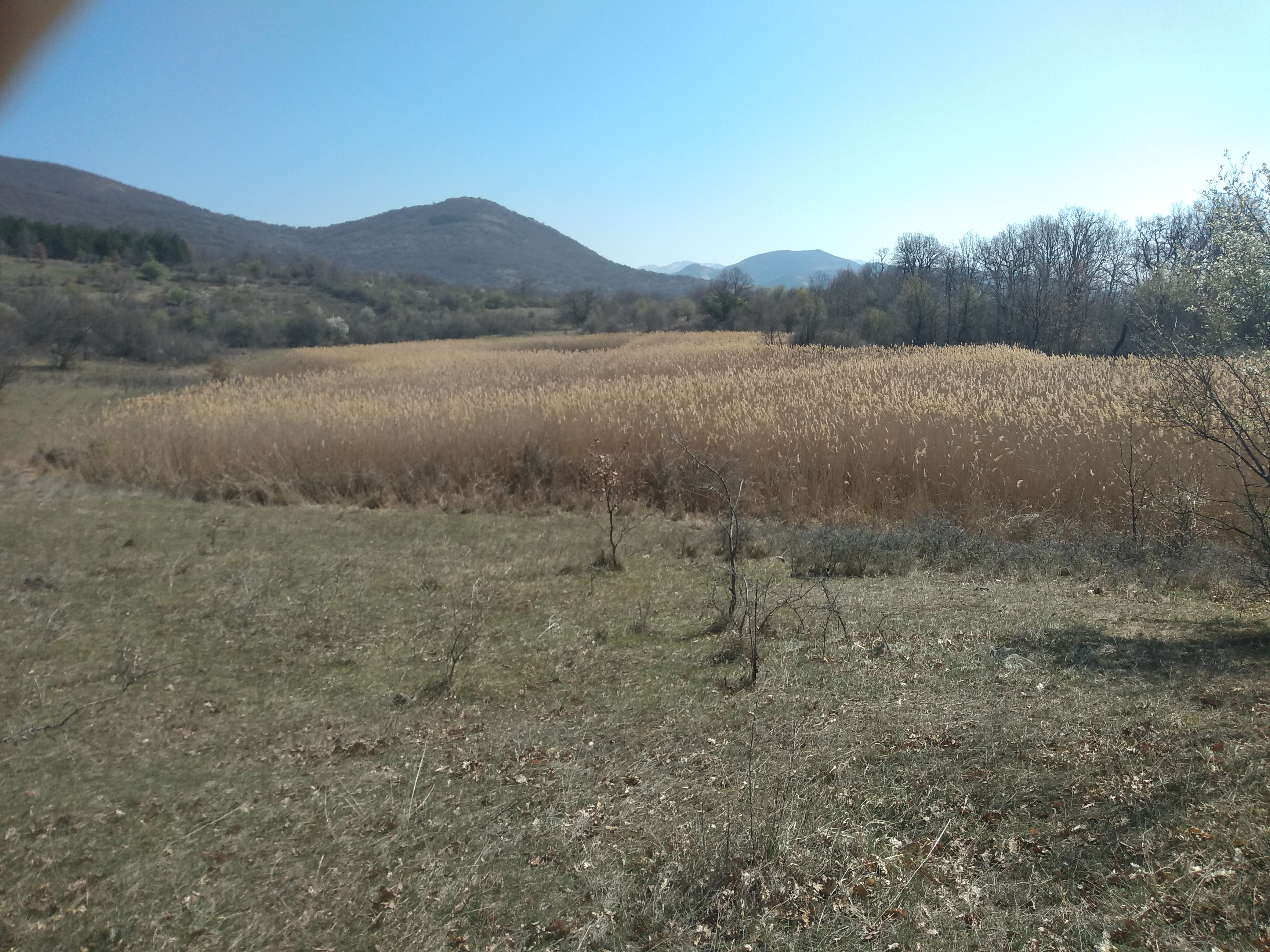 Kundino Lake, natural lake of volcanic origin near village of Kundino, Probistip region, Macedonia